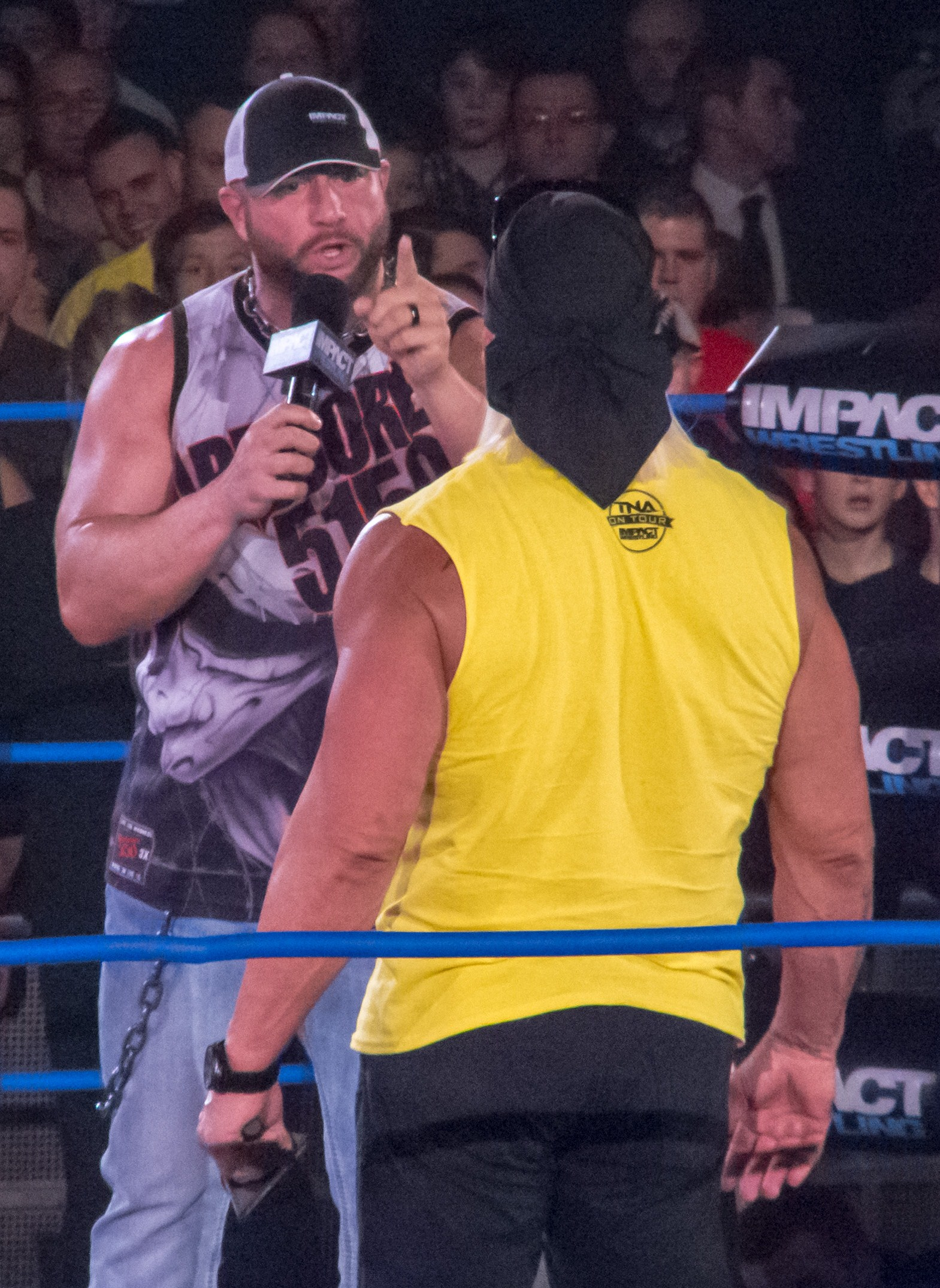 Bully Ray addresses Hulk Hogan at the Impact! TV Tapings in Wembley, England on January 26, 2013.